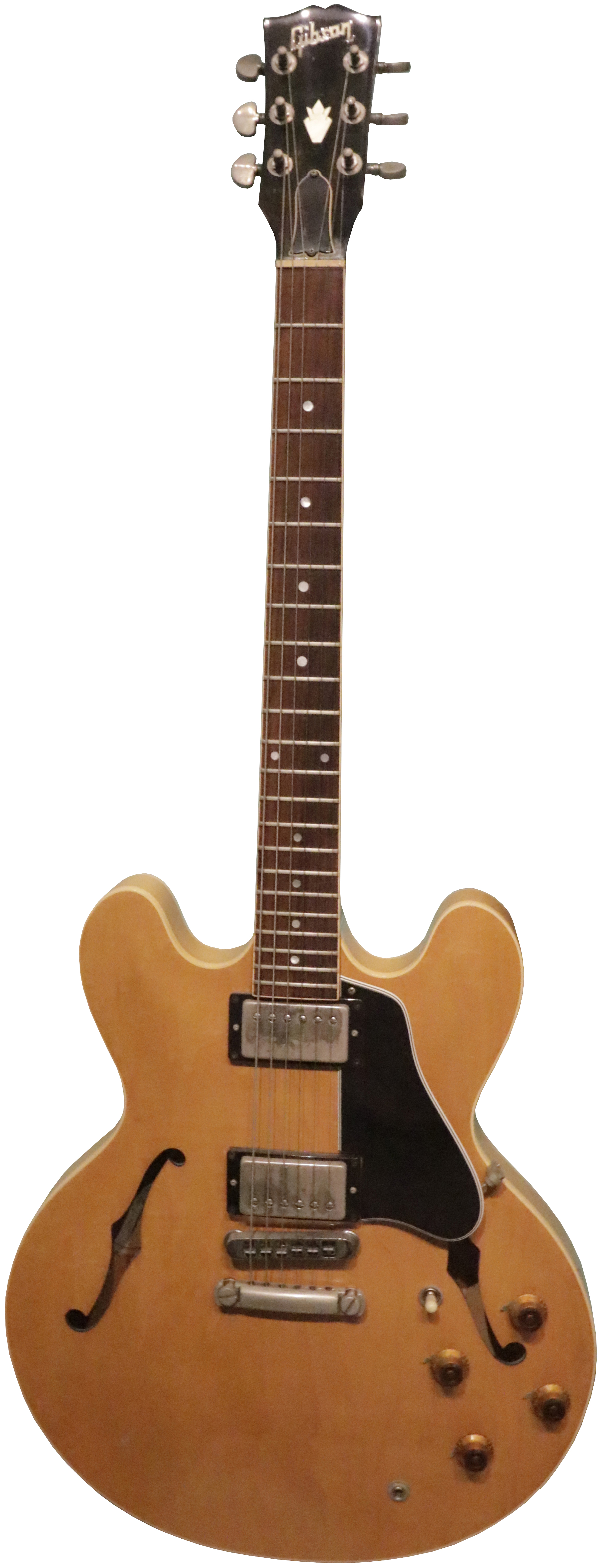 Chuck Berry's Gibson (Rock and Roll Hall of Fame, Cleveland, OH)